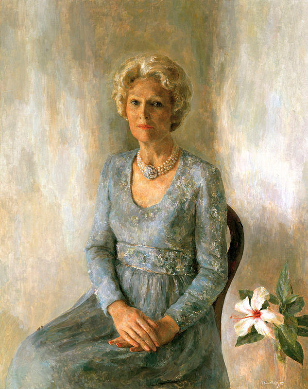 Official White House portrait for First Lady Pat Nixon